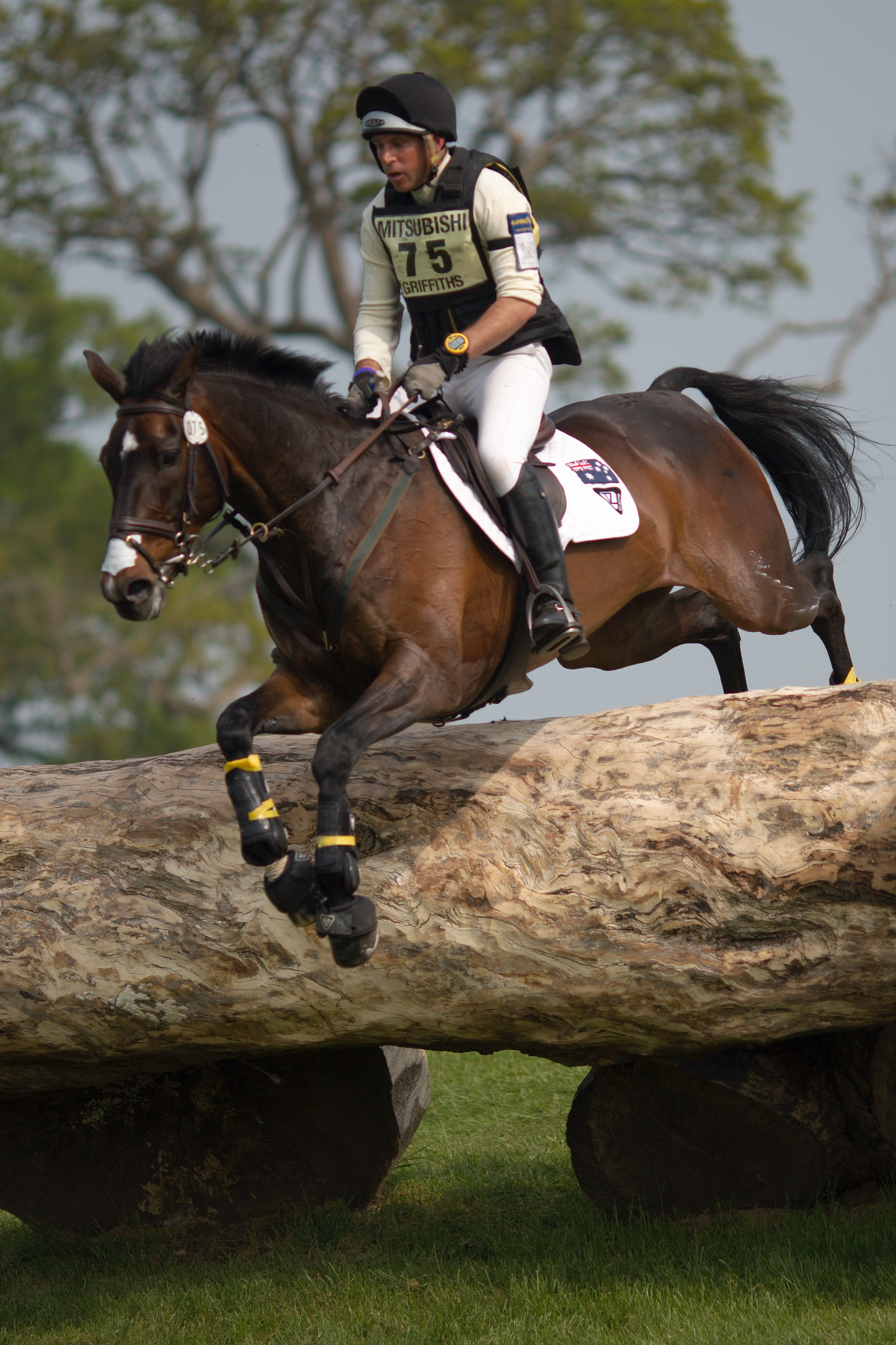 Sam Griffiths and Happy Times at the Quarry during the cross-country phase of Badminton Horse Trials 2011.